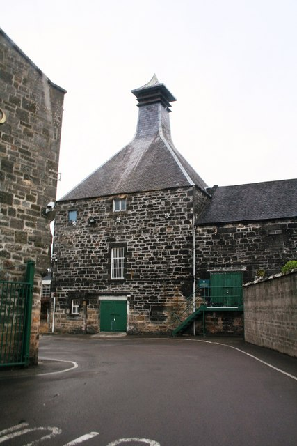 Linkwood pagoda The recognisable feature of a distillery but in fact at Linkwood part of the older, mothballed, part of the complex.